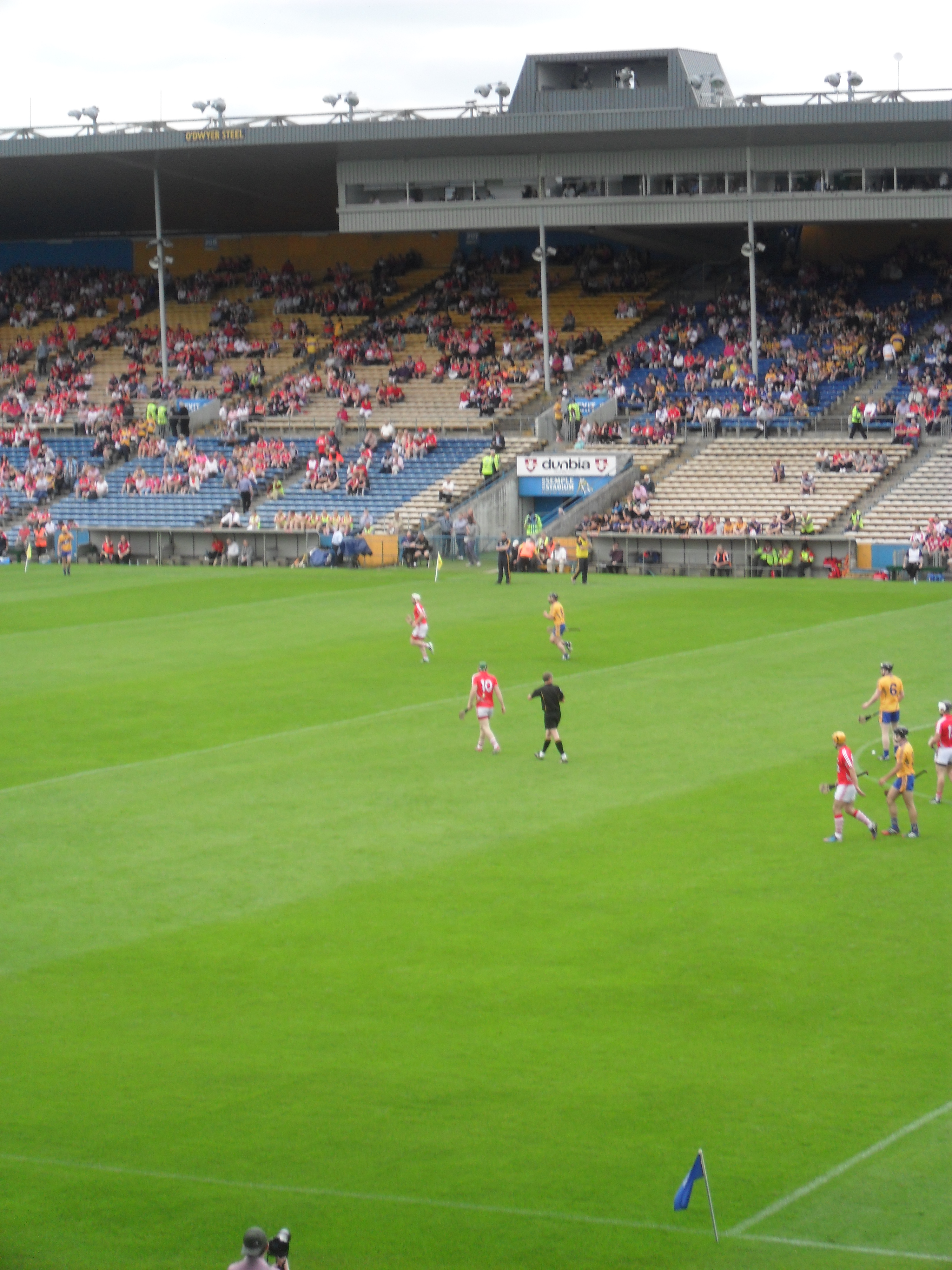 15 June 2015, Semple Stadium, Thurles